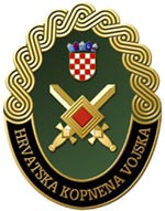 Emblem Croatian Army